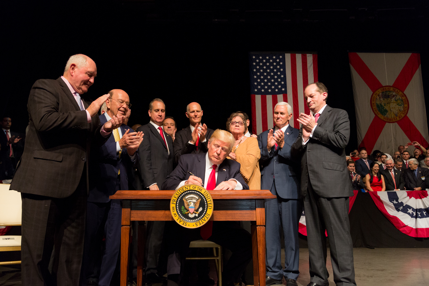 President Donald J. Trump signs the National Security Presidential Memorandum on Strengthening the Policy of the United States' Toward Cuba | June 16, 2017 (Official White House Photo by Shealah Craighead)